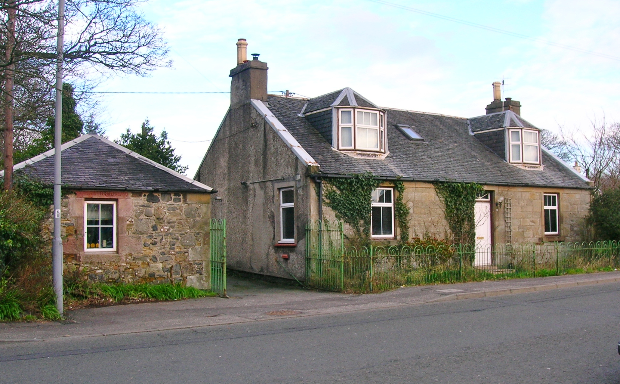 Old smithy, Main Street, Loans, South Ayrshire, Scotland.